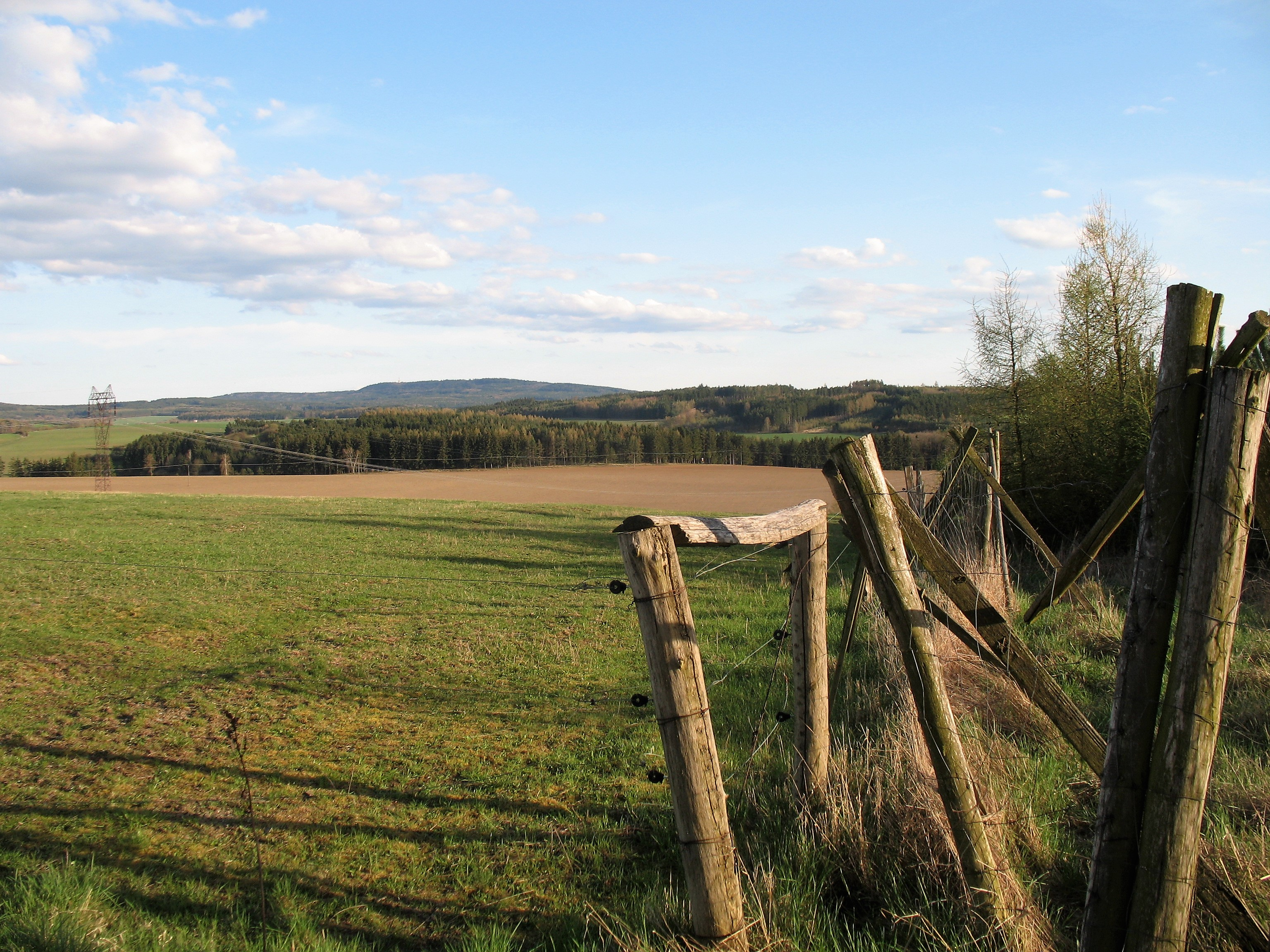 Radeč Mountain from Svinná, Rokycany District, Czech Republic